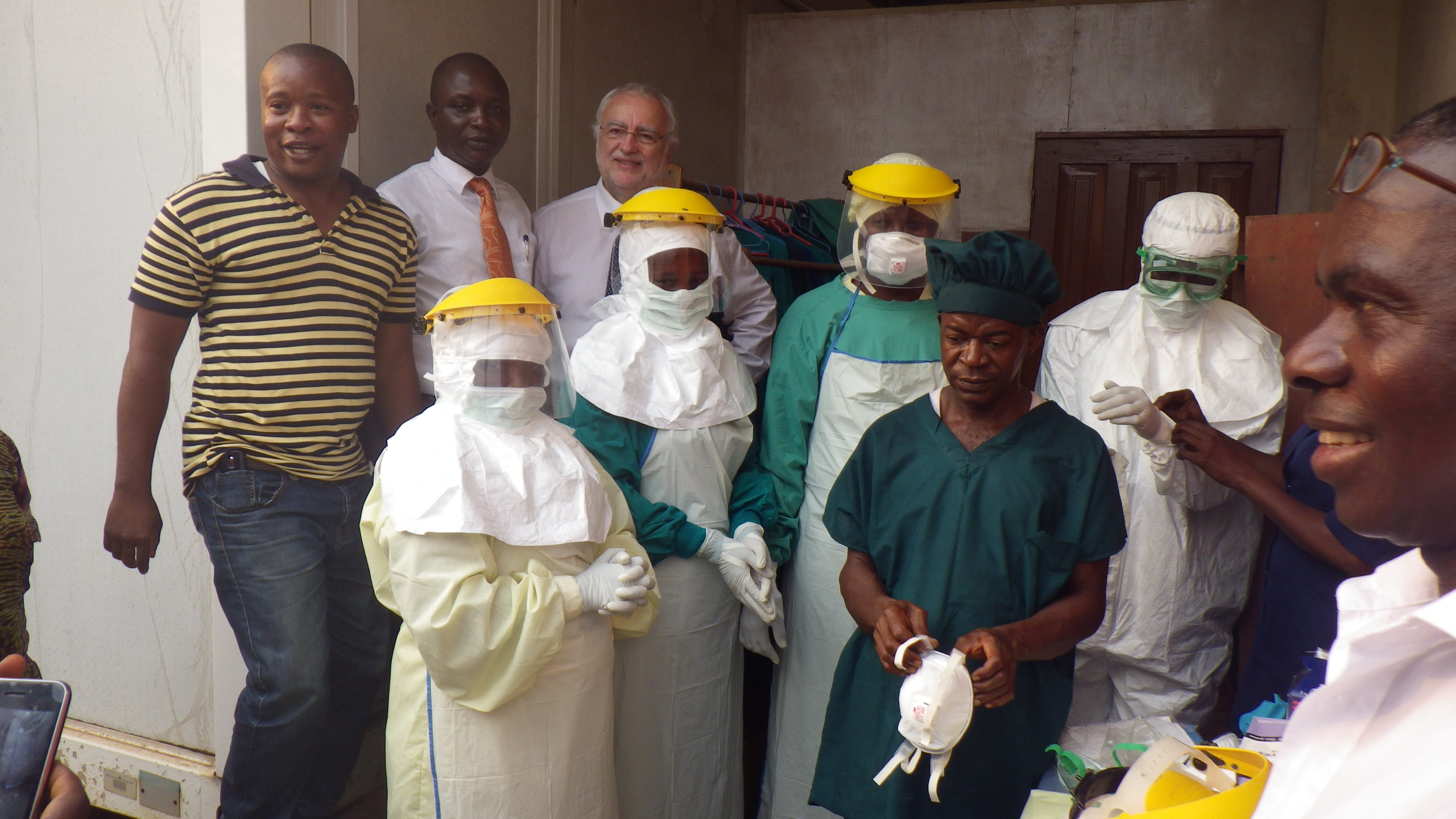 Sierra Leone - Training for Lassa fever preparedness